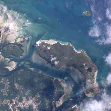 Turtle Head Island, middle center, Brewis Island, top right, Trochus Island, middle left. All islands lie in the Newcastle Bay, Queensland, Australia and belong to the Torres Strait Islands.